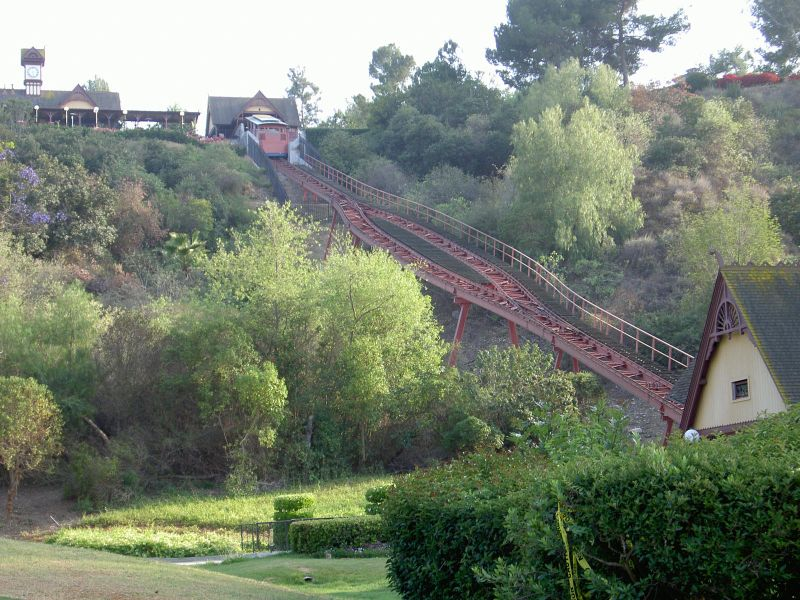 This funicular transports golfers and their carts between holes at the resort's golf courses.